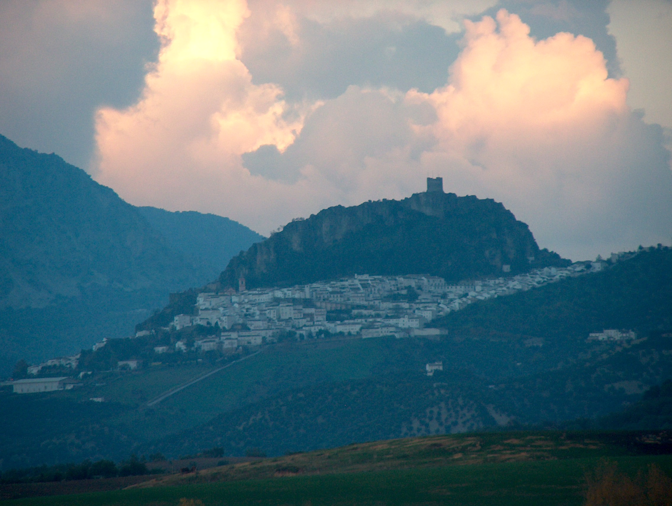 Zahara de la Sierra, Cádiz (España)